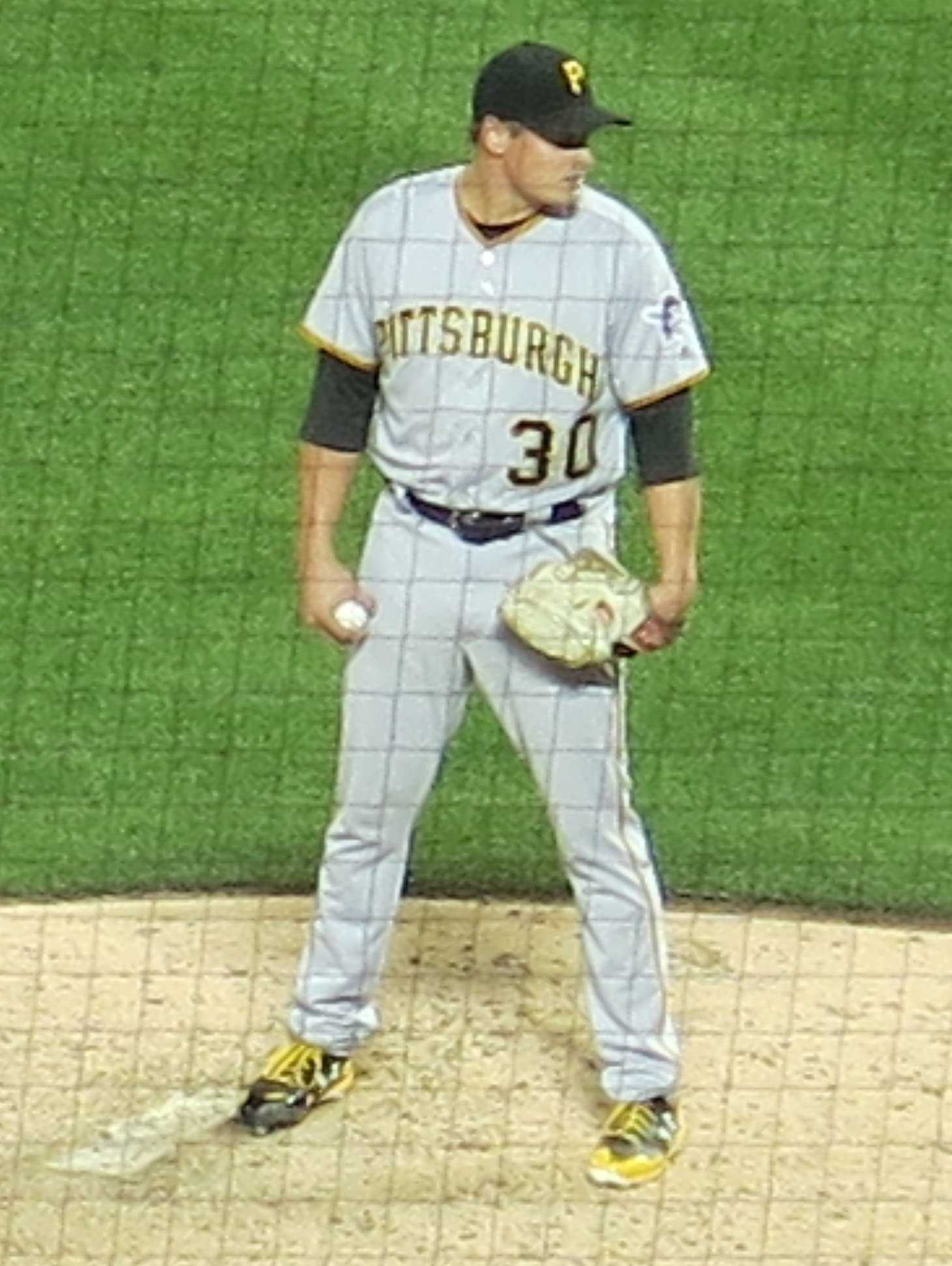 Kyle Crick on June 26, 2018